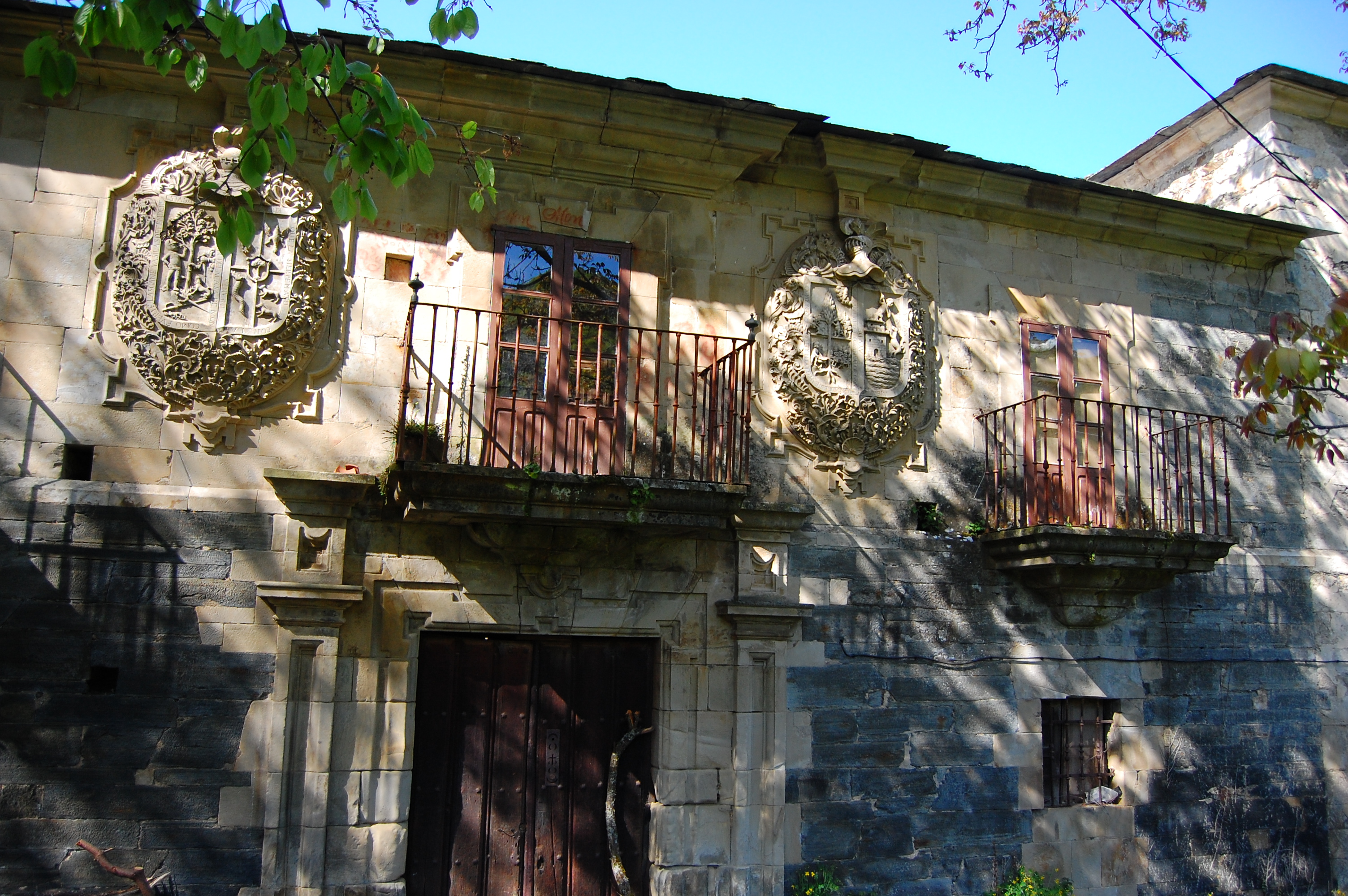 Palace of Mon facade